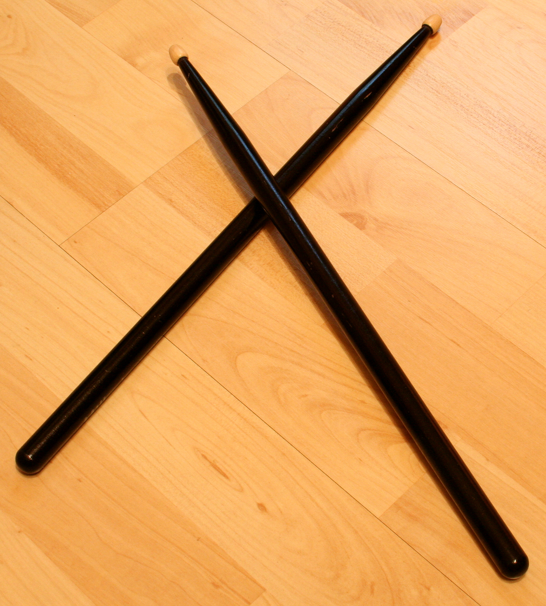 a pair of drum-sticks